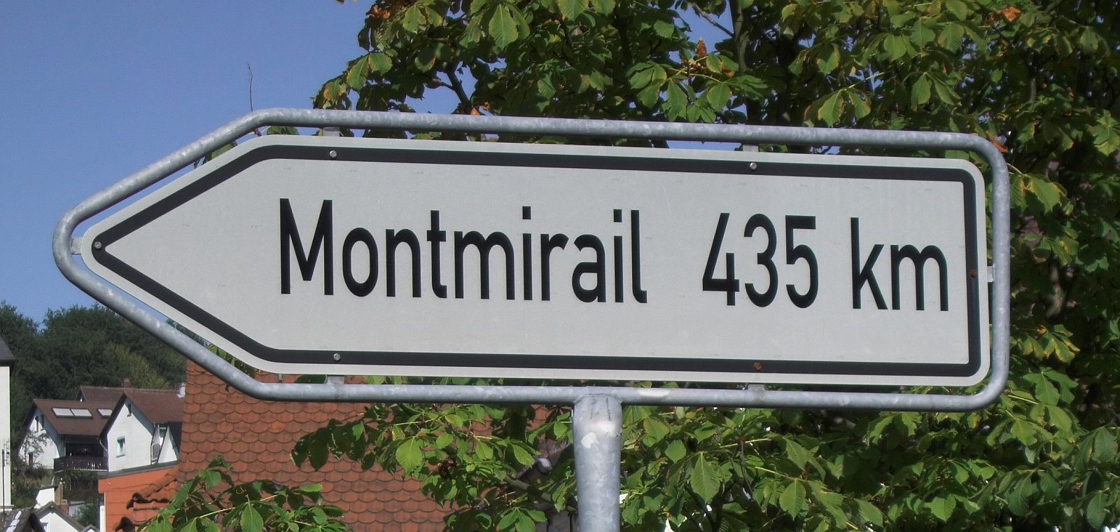 Sign to the Partner City of Wald-Michelbach next to the city hall Kameradaten: Canon Powershot s70, for the rest see exif-data